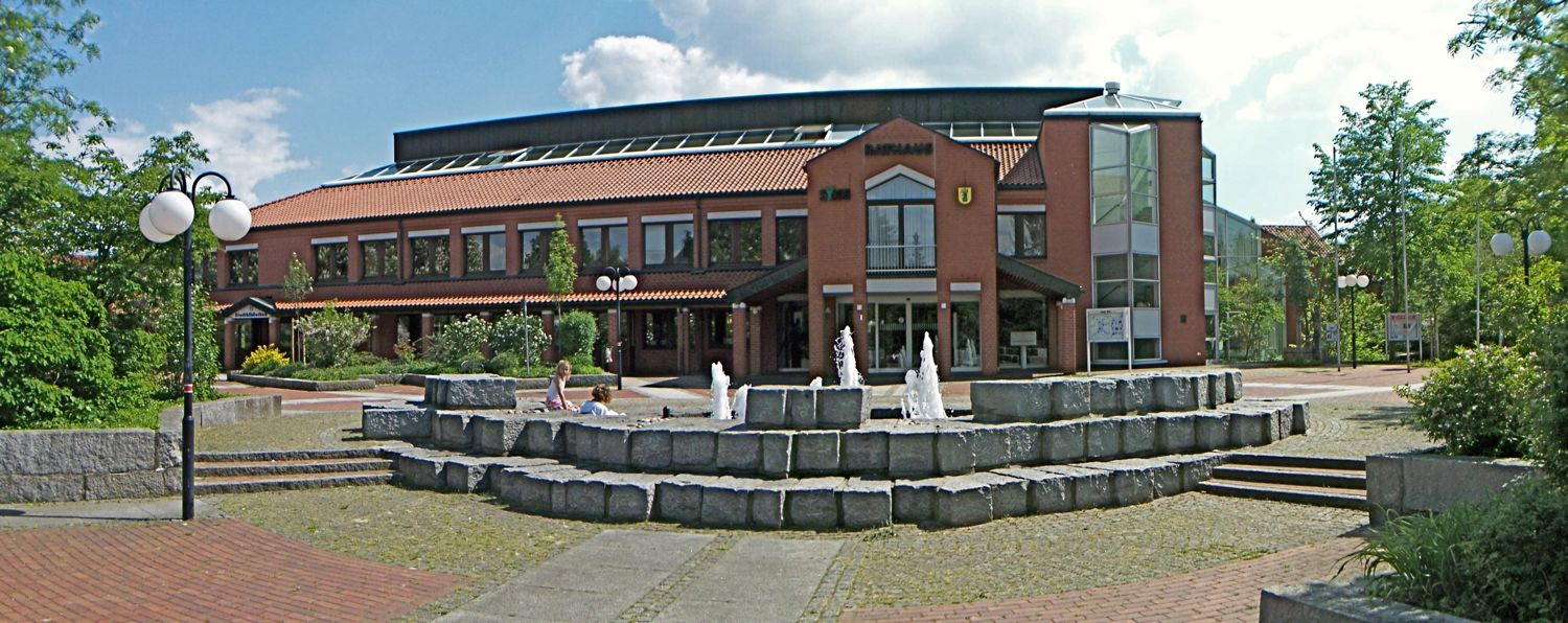 Town hall of the City of Syke, build 1983. Lower Saxony, Germany